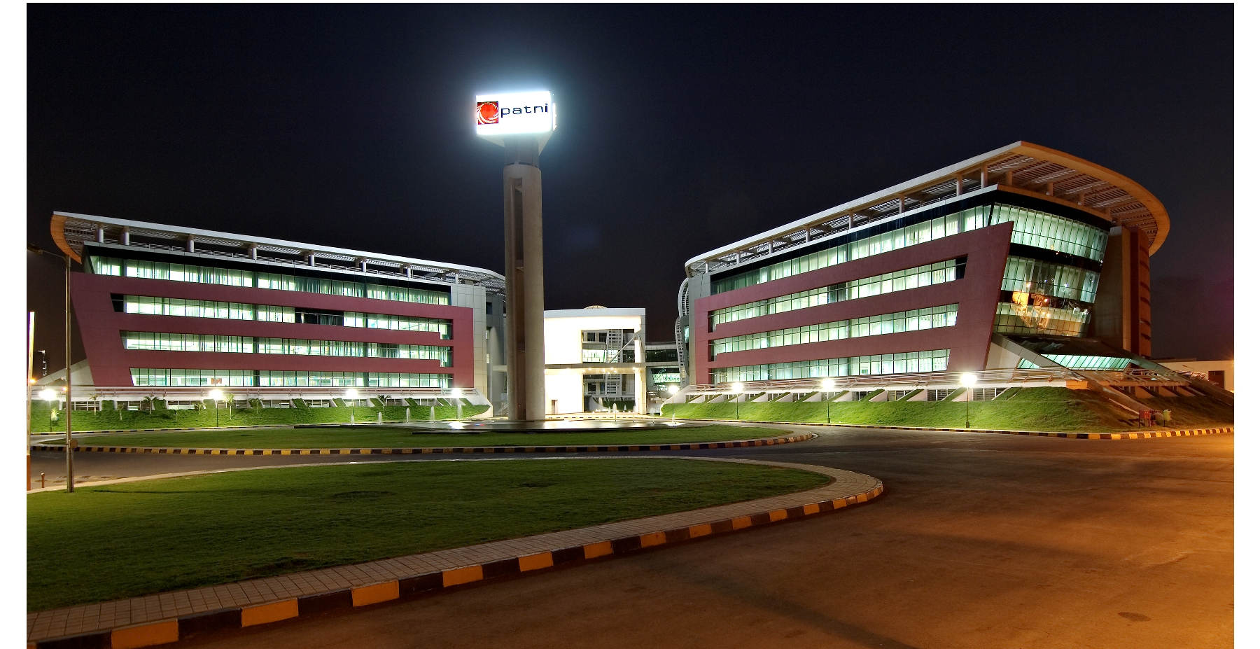 Patni Airoli campus entrance view